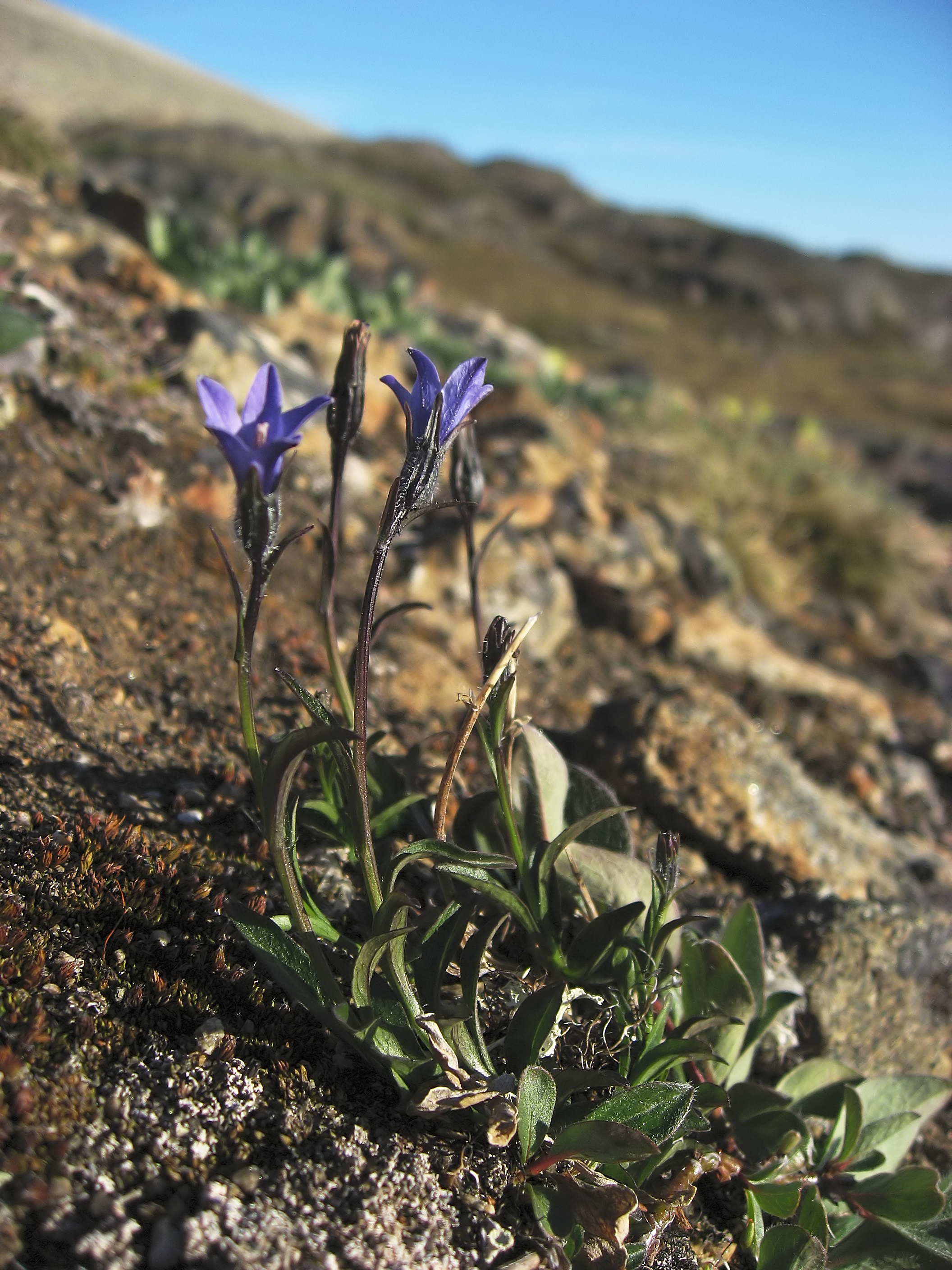 Campanula uniflora photograped near Upernavik, Greenland.